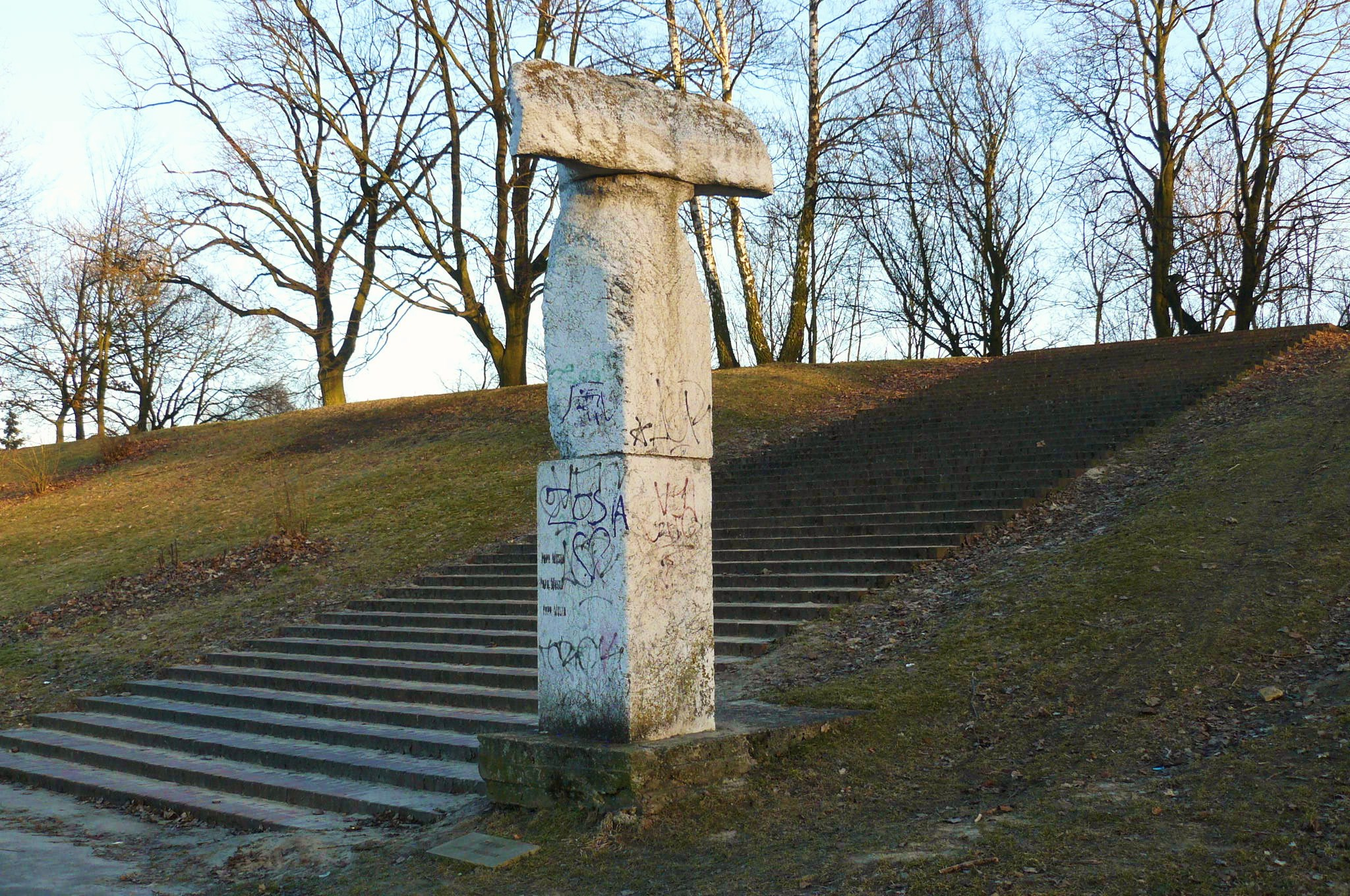 Zryw, Józef Kaliszan, Poznan.